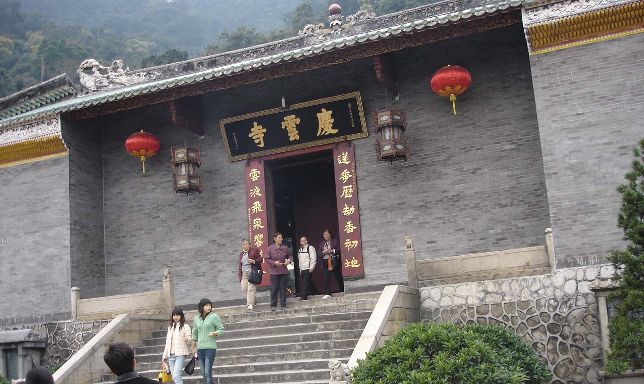 Qingyun Temple, Dinghu Mountain, Zhaoqing, Guangdong, China